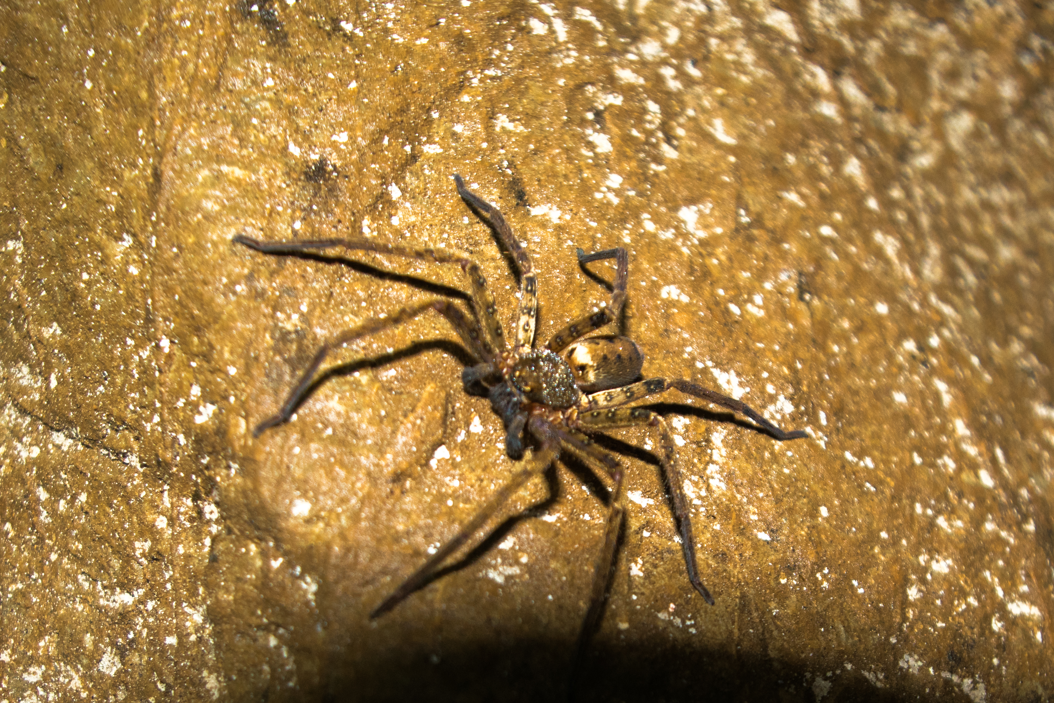 Sinopoda forcipata in the cave Mukainokura no ana near Kawachi no Kaza-ana("Kawachi Wind Cave").